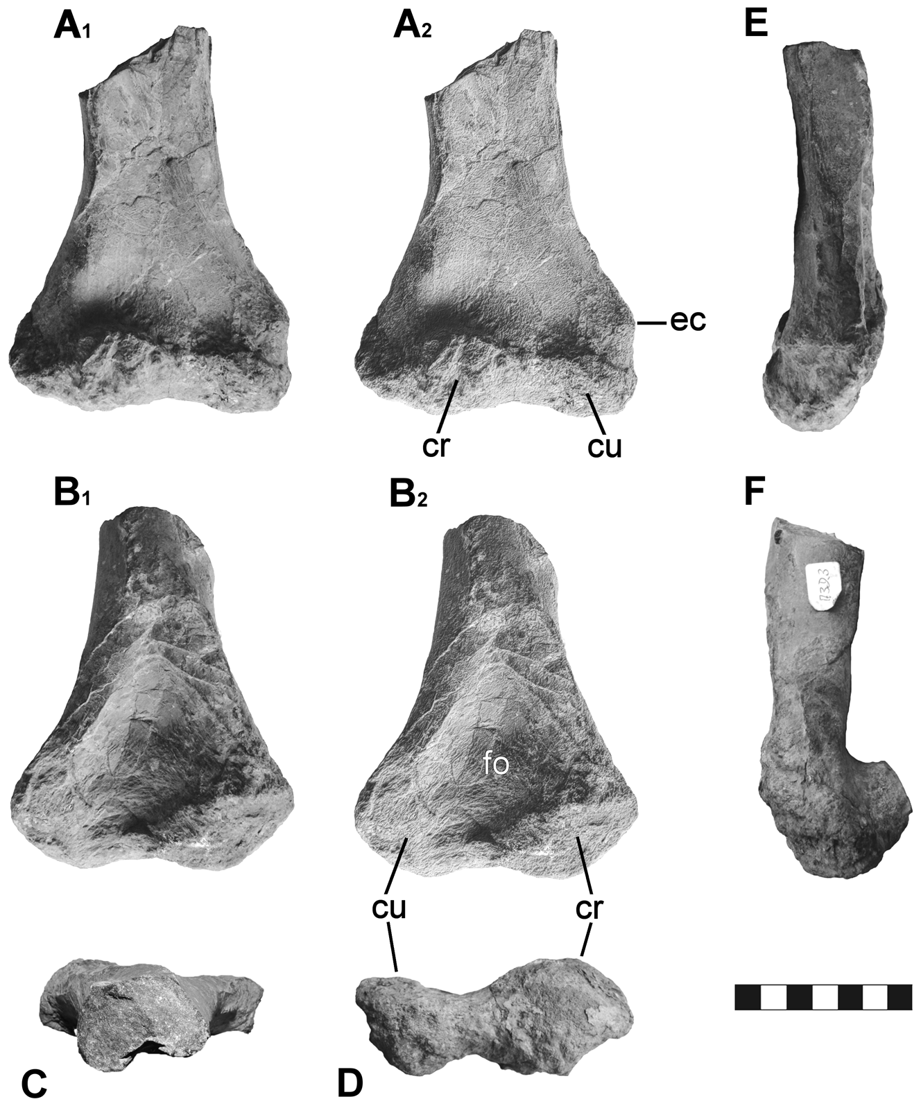 Distal portion of a right humerus of ?Hylaeosaurus sp. (GPMM A3D.3) from the Bückeberg Formation (early Valanginian) of Gronau in Westfalen, northwestern Germany. A, anterior view; B, posterior view; C, proximal view; D, distal view; E, medial view; F, lateral view. Figures A2 and B2 have been digitally enhanced. Abbreviations: cr, condylus radialis; cu, condylus ulnaris; ec, entepicondylus; fo, fossa olecrani. Scale-bar units equal 1 cm.